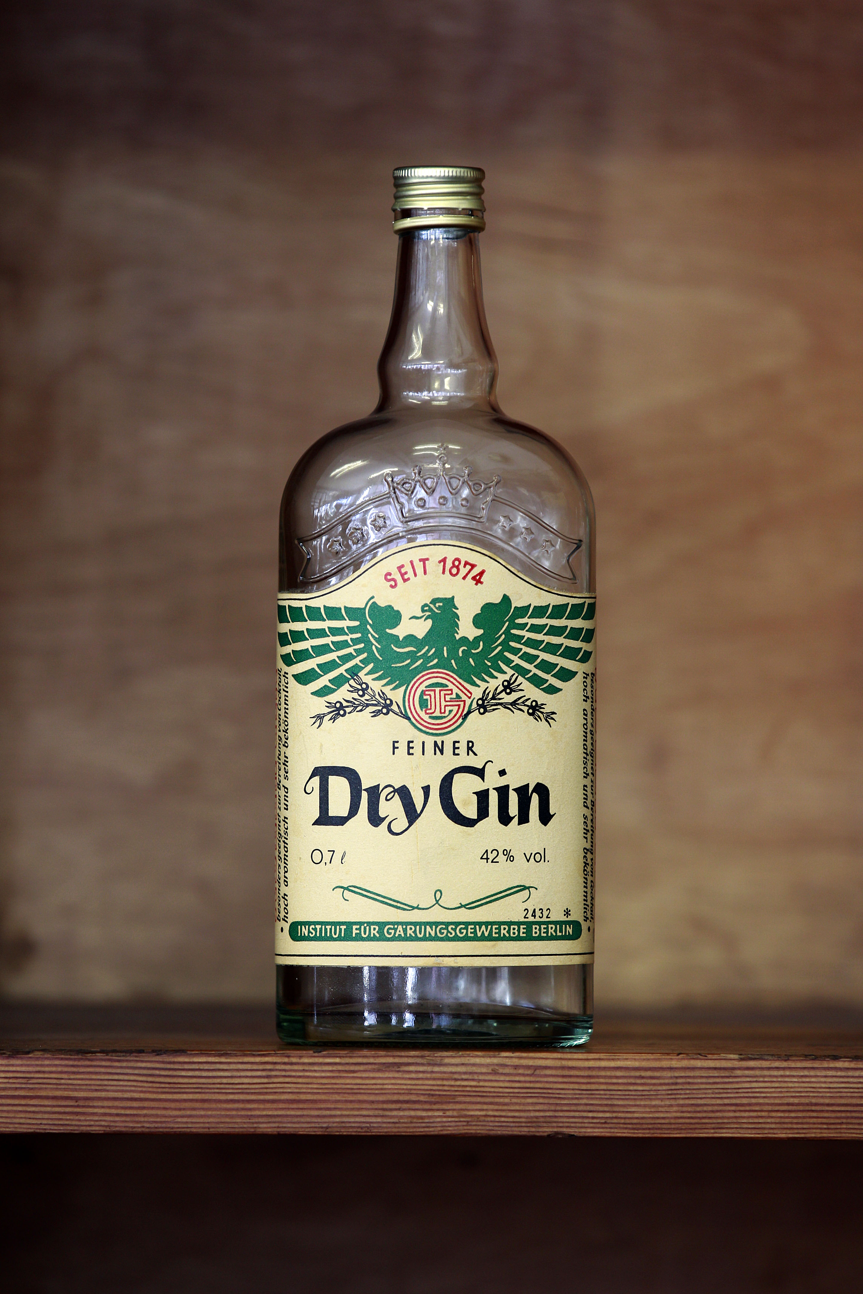 Berlin; 07.03.2011: Im Wedding hat sich die Preussische Spirituosen Manufaktur bis heute im Originalzustand von 1874 erhalten und produziert hochwertige Alkohole.